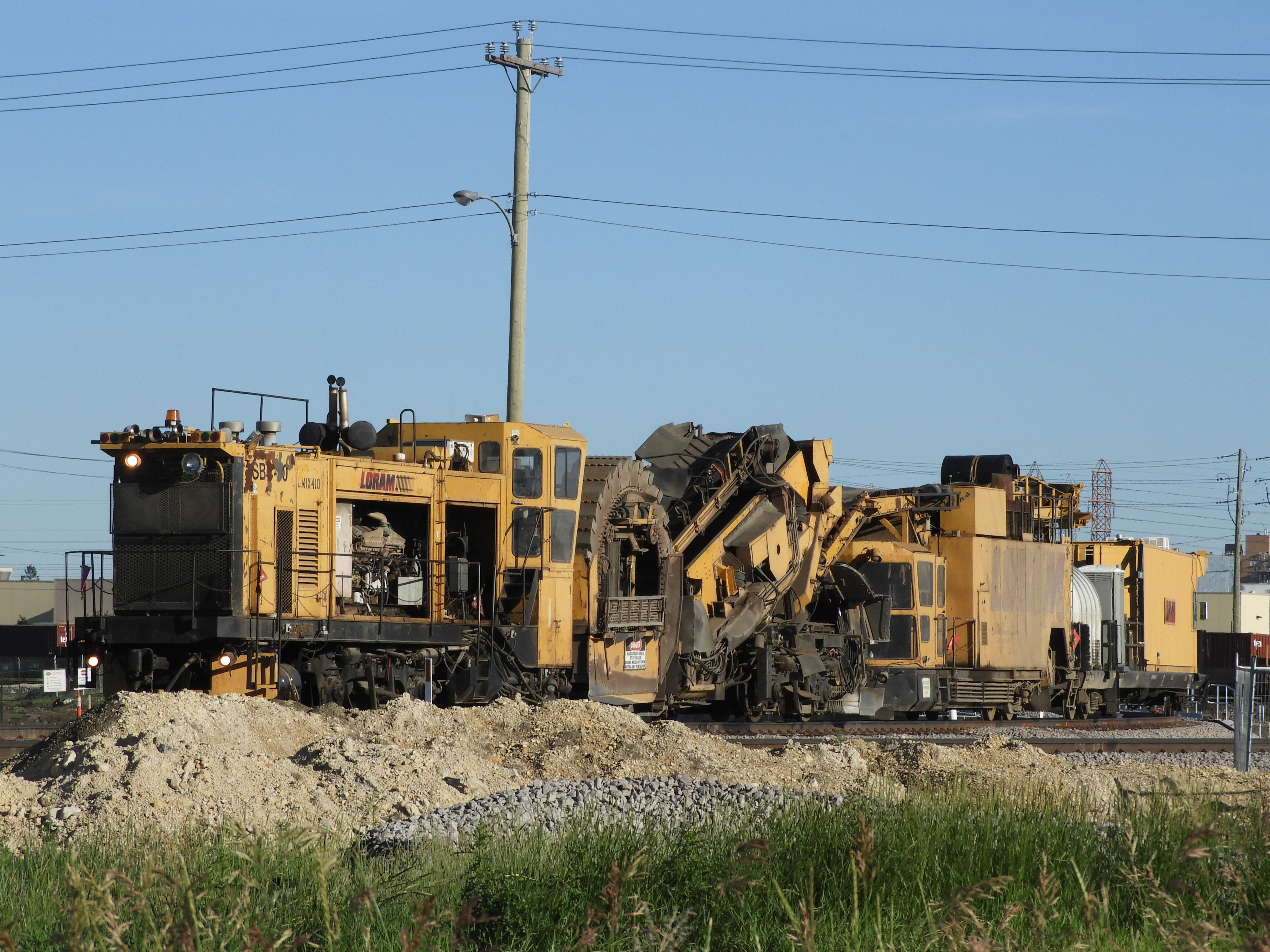 LORAM Ballast Cleaner at Portage Junction on the CN Letellier Subdivision in Winnipeg.